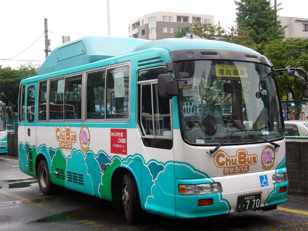 Chu Bus, Fuchu (Tokyo).